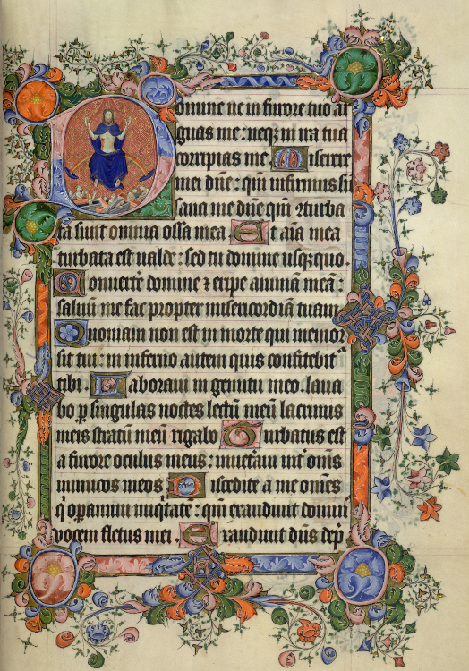 Manuscript page of Psalms; from BL Add MS 42131, f. 37r (the "Bedford Psalter and Hours"). Held and digitised by the British Library.